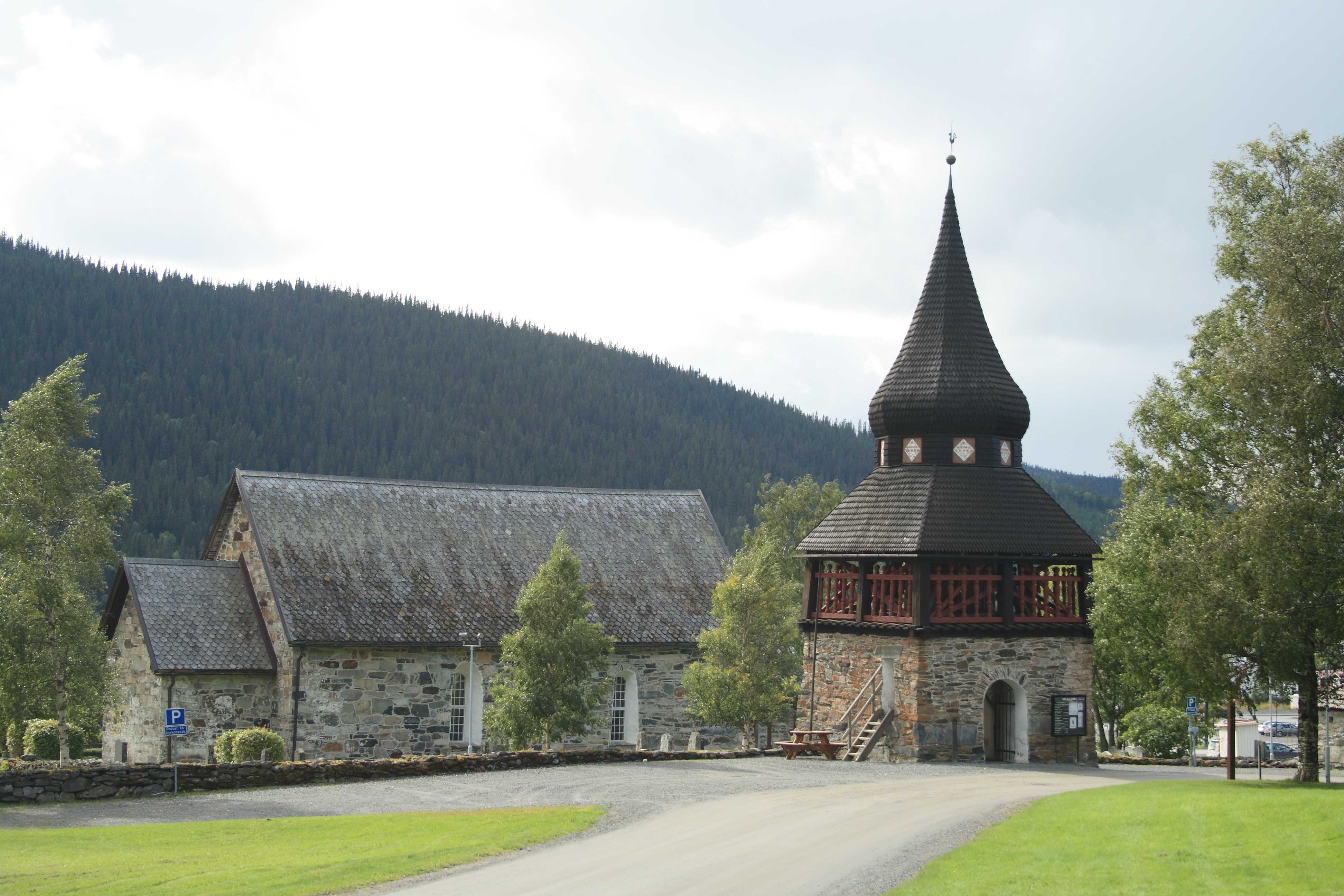 Åre Old Church seen from east-north-eastern angle